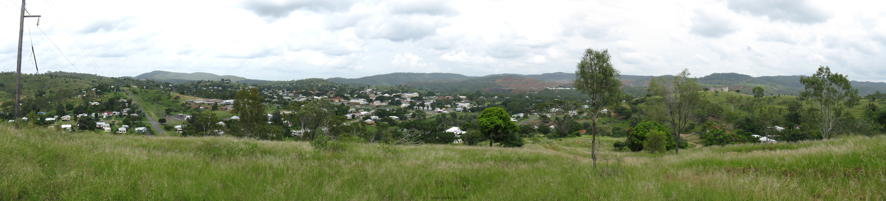 Panorama of Mount Morgan - February 2008